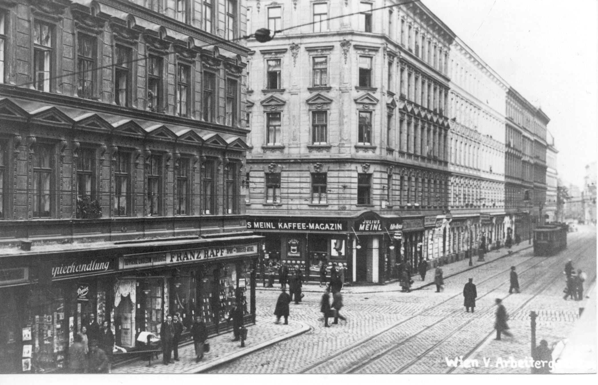 Corner Arbeitergasse/Reinprechtsdorferstraße in district Margareten (5th) - Vienna